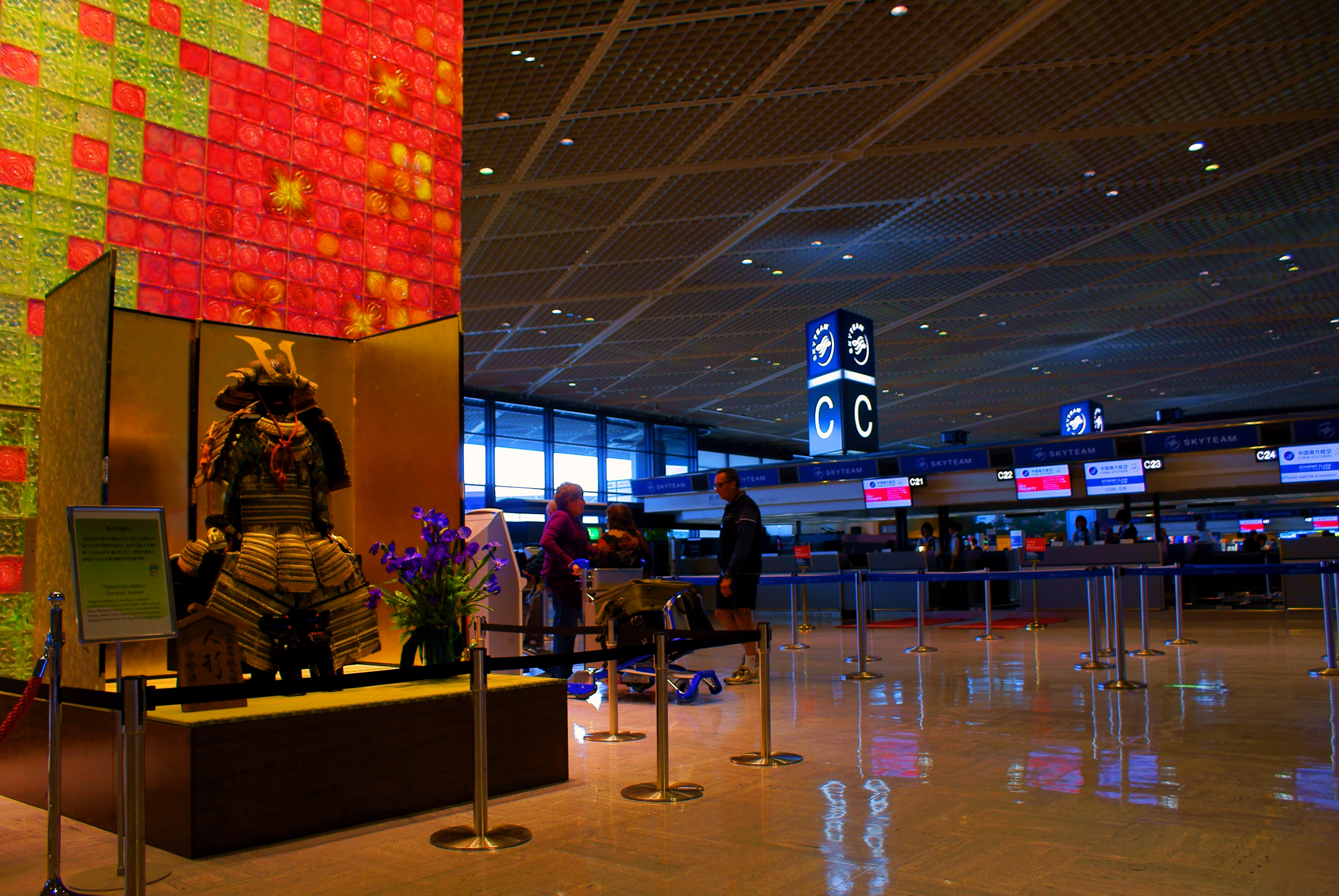 The Japanese armor which was displayed at Terminal 1 North Wing of Tokyo Narita Airport.